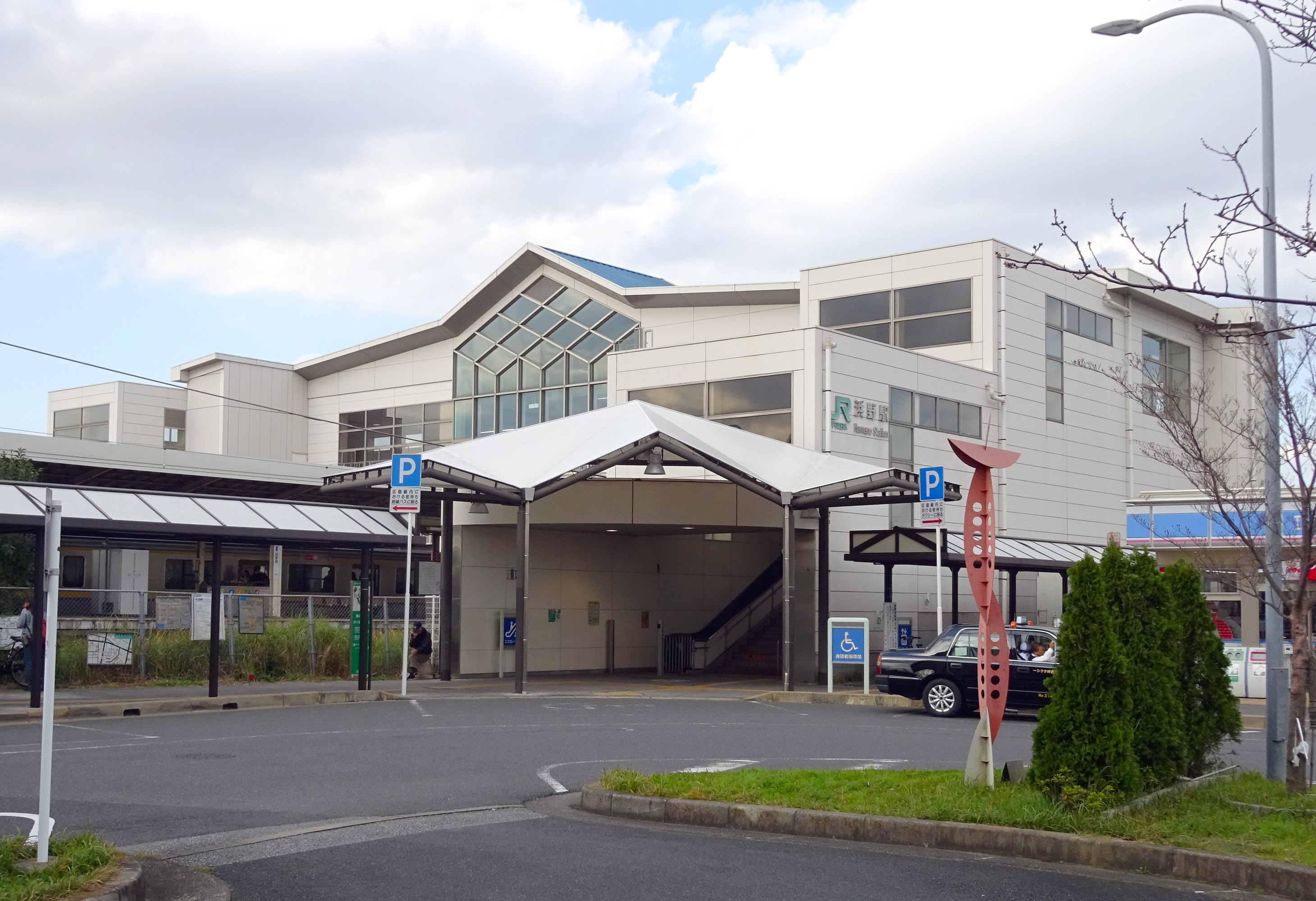 North entrance of Hamano Station